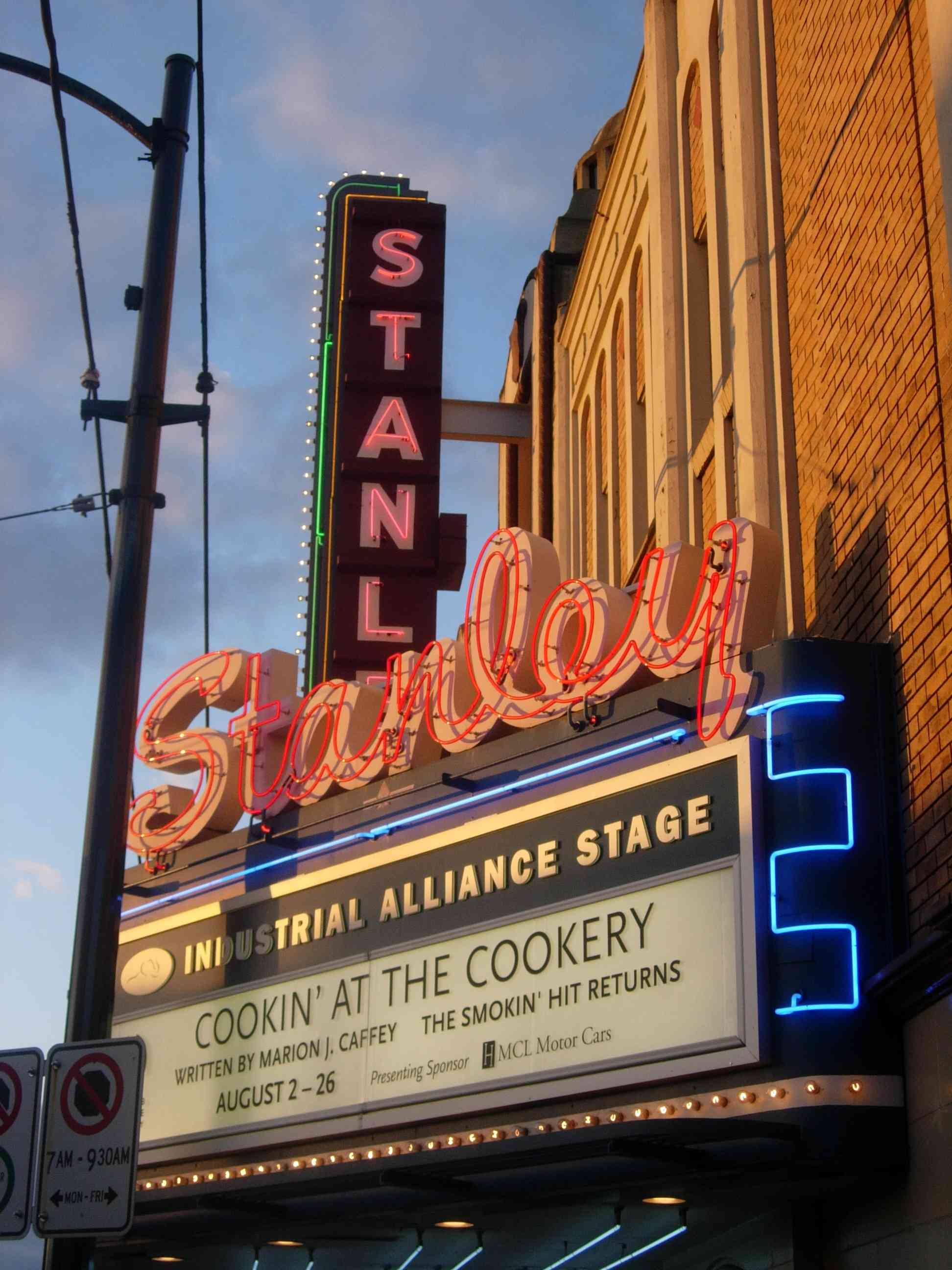 Stanley Industrial Alliance Stage showing Cookin' at the Cookery.